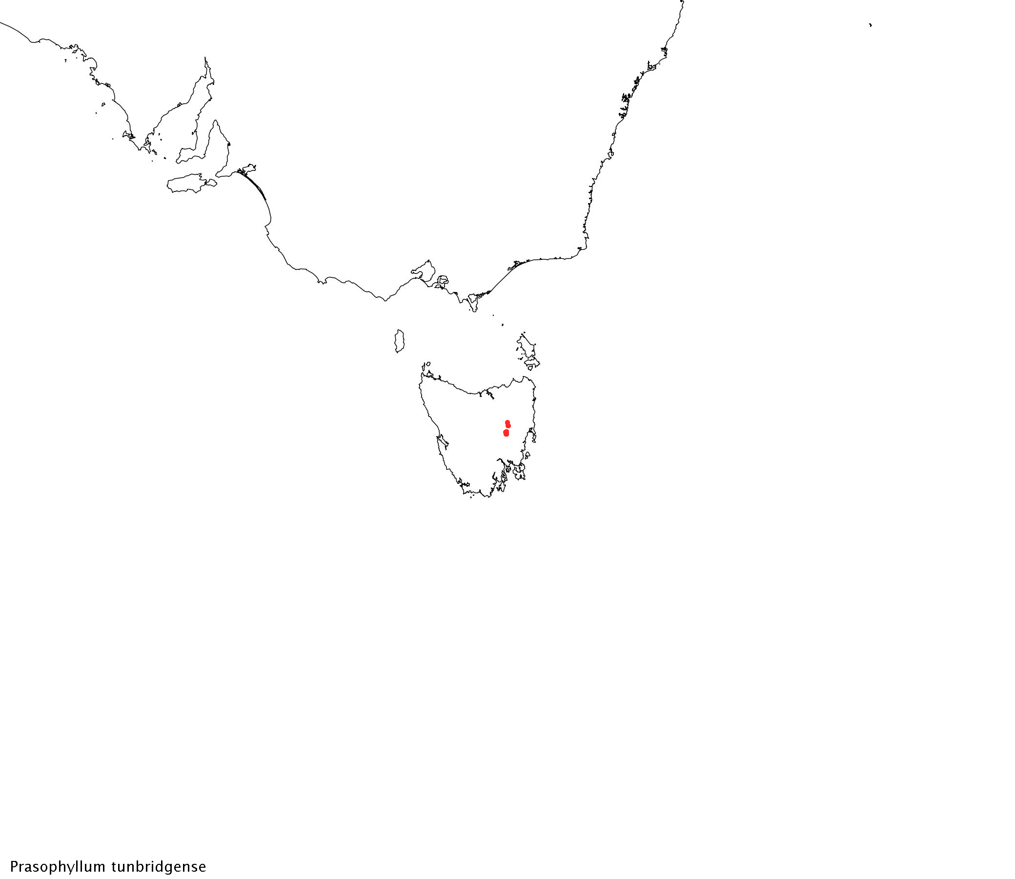 Distribution of Prasophyllum tunbridgense in Tasmania